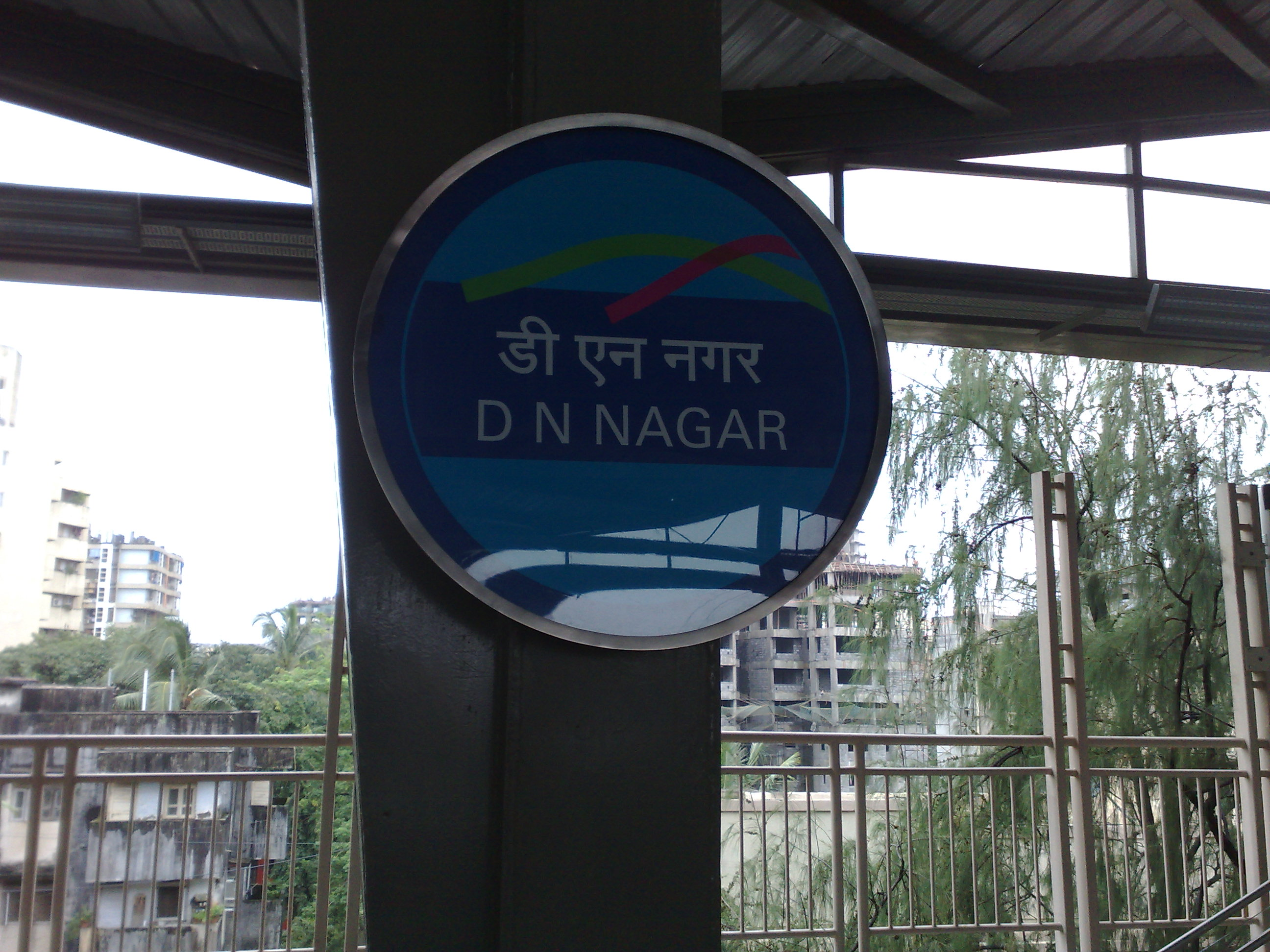 DN Nagar metro station - 1